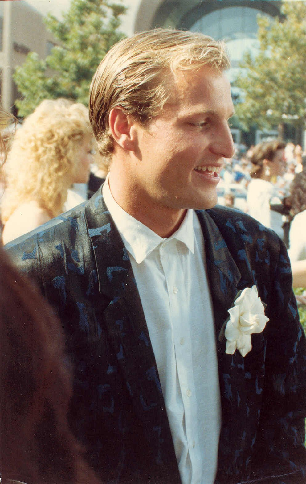 Woody Harrelson on the red carpet at the 40th Annual Primetime Emmy Awards, 8/28/88